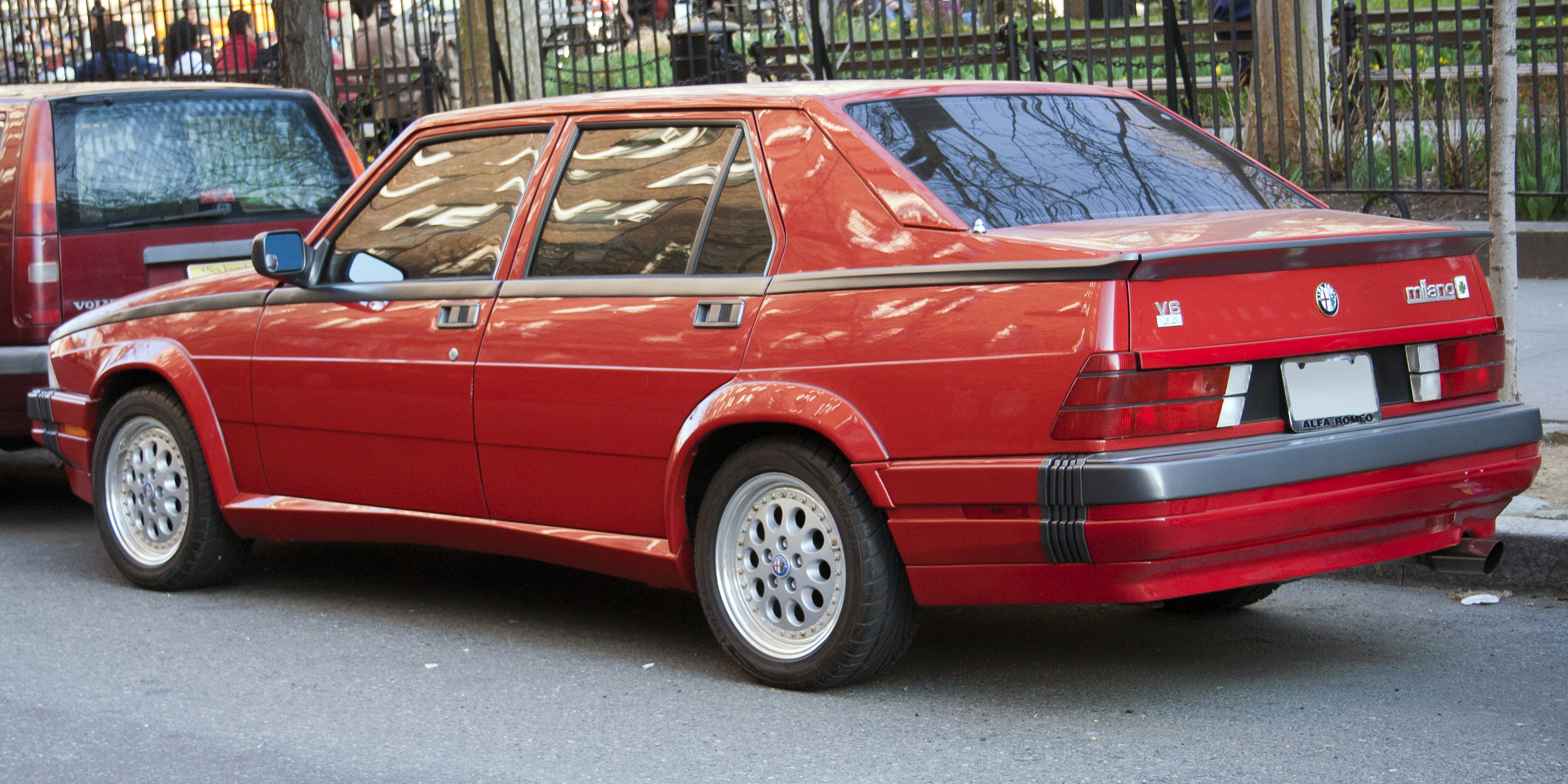 Rear view of 1987 Alfa Romeo Milano Quadrifoglio Verde 3.0 V6, very early car with "H" VIN code and low chassis number. Florida plates. Wheels are non-standard but look fantastic...